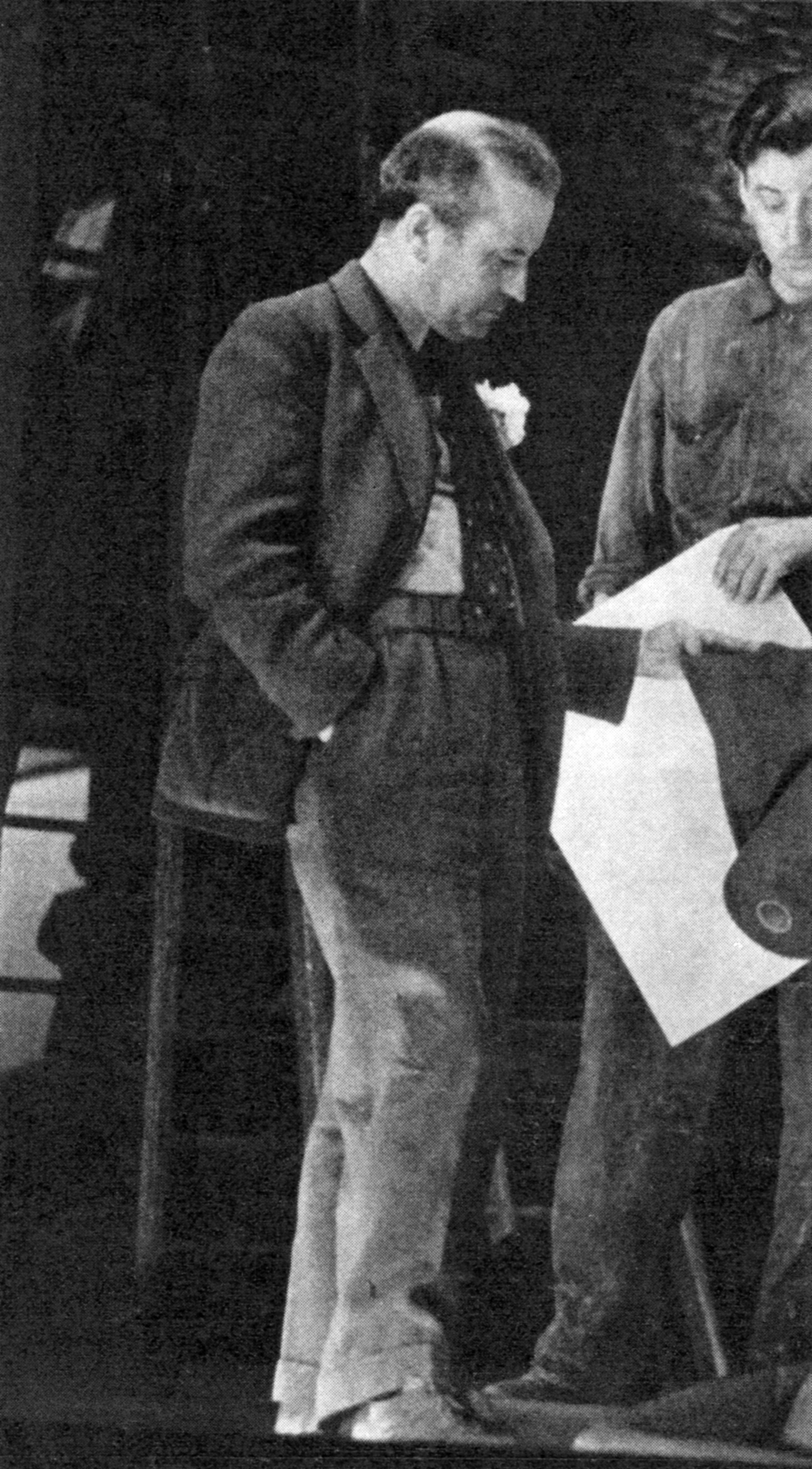 Photograph of Frederic McConnell, director of the Cleveland Playhouse Caption reads as follows: Frederic McConnell, director of the Cleveland Play House, cooperates not only with Cleveland's playgoers, but with his backstage crew as well. McConnell was awarded Stage magazine's Palm for excellence in the theatre. The full citation can be read in the initial scan; it begins, "To Frederic McConnell, who has guided the Cleveland Play House to its position of high importance in the world of community theatre."